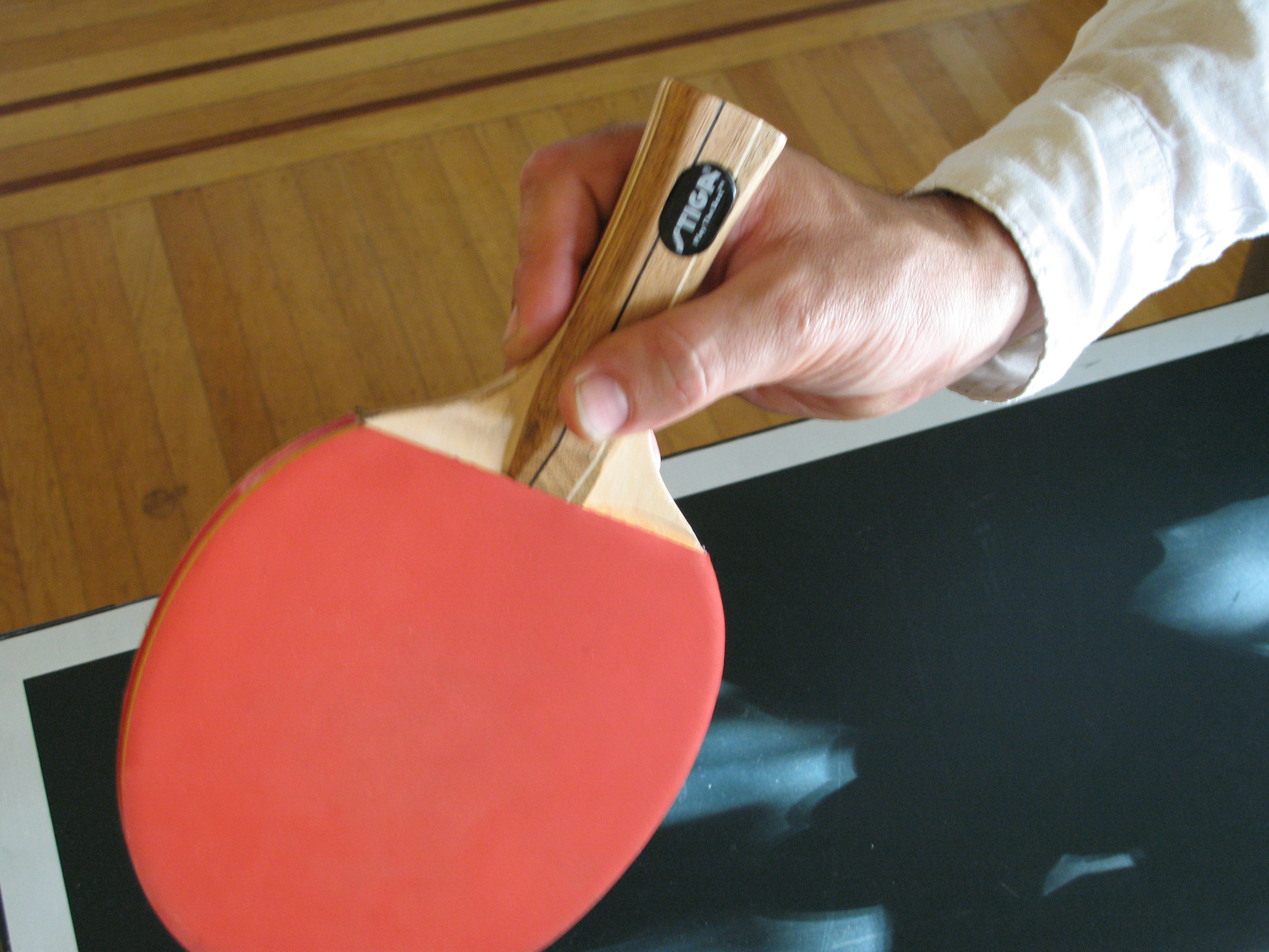 An example of the "Penholder" grip used in Table Tennis.